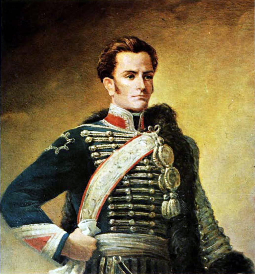 Posthumous portrait of chilean General José Miguel Carrera